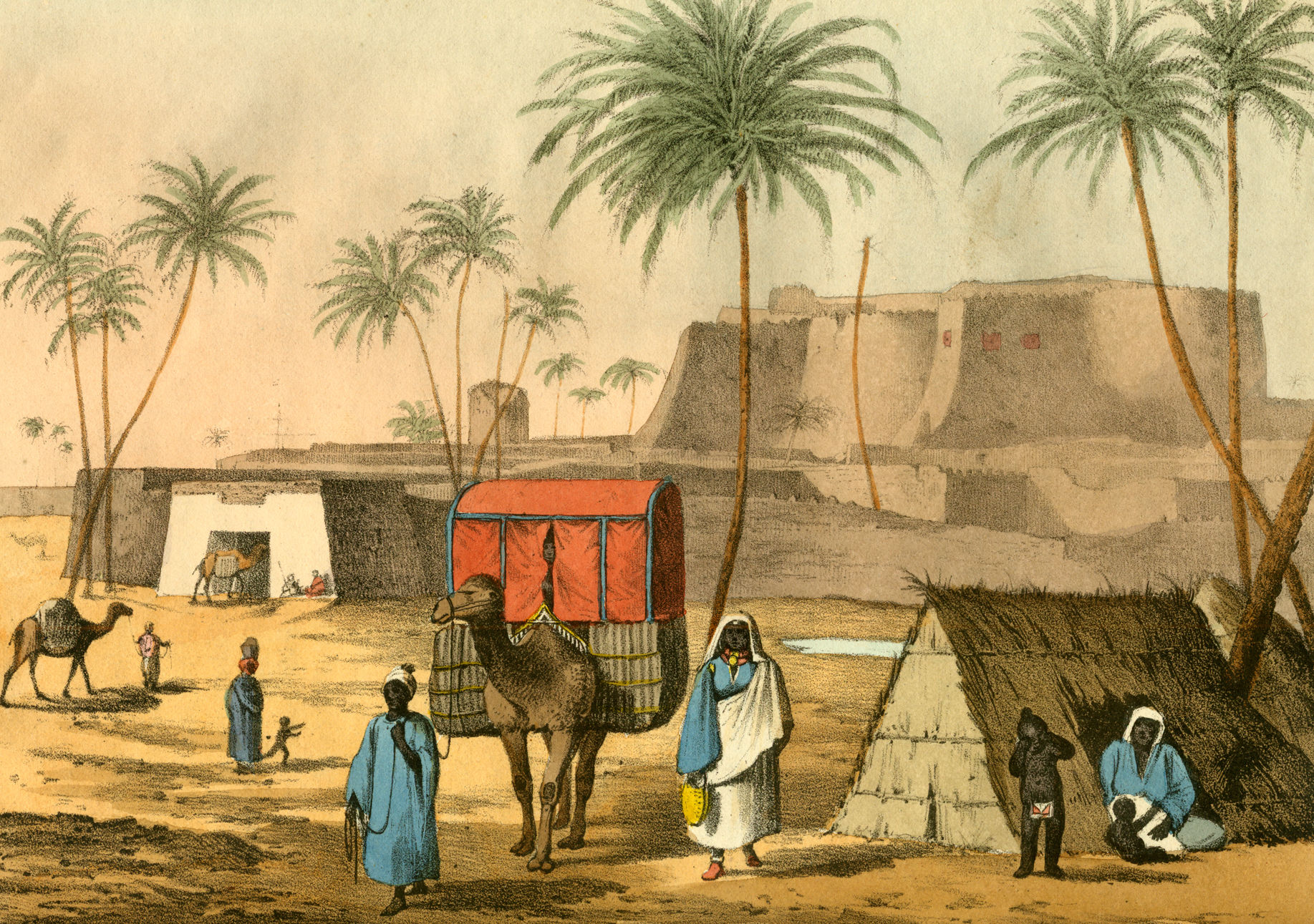 "The Castle of Morzouk" by Lyon